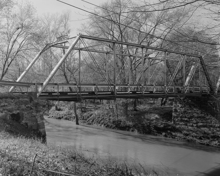 Gholson Bridge, Spanning Meherrin River at VA State Route 715, Lawrenceville vicinity (Brunswick County, Virginia) cropped This image or media file contains material based on a work of a National Park Service employee, created as part of that person's official duties. As a work of the U.S. federal government, such work is in the public domain in the United States. See the NPS website and NPS copyright policy for more information. Creator: U.S. Department of the Interior, National Park Service, Historic American Engineering Record. Survey number HAER VA,13-LAWV.V,1-6 Source: U.S. Library of Congress, Prints and Photographs Division, "Built in America" Collection. Copyright: "The original measured drawings and most of the photographs and data pages in HABS/HAER/HALS were created for the U.S. Government and are considered to be in the public domain." Object location36° 43′ 00″ N, 77° 49′ 53″ W